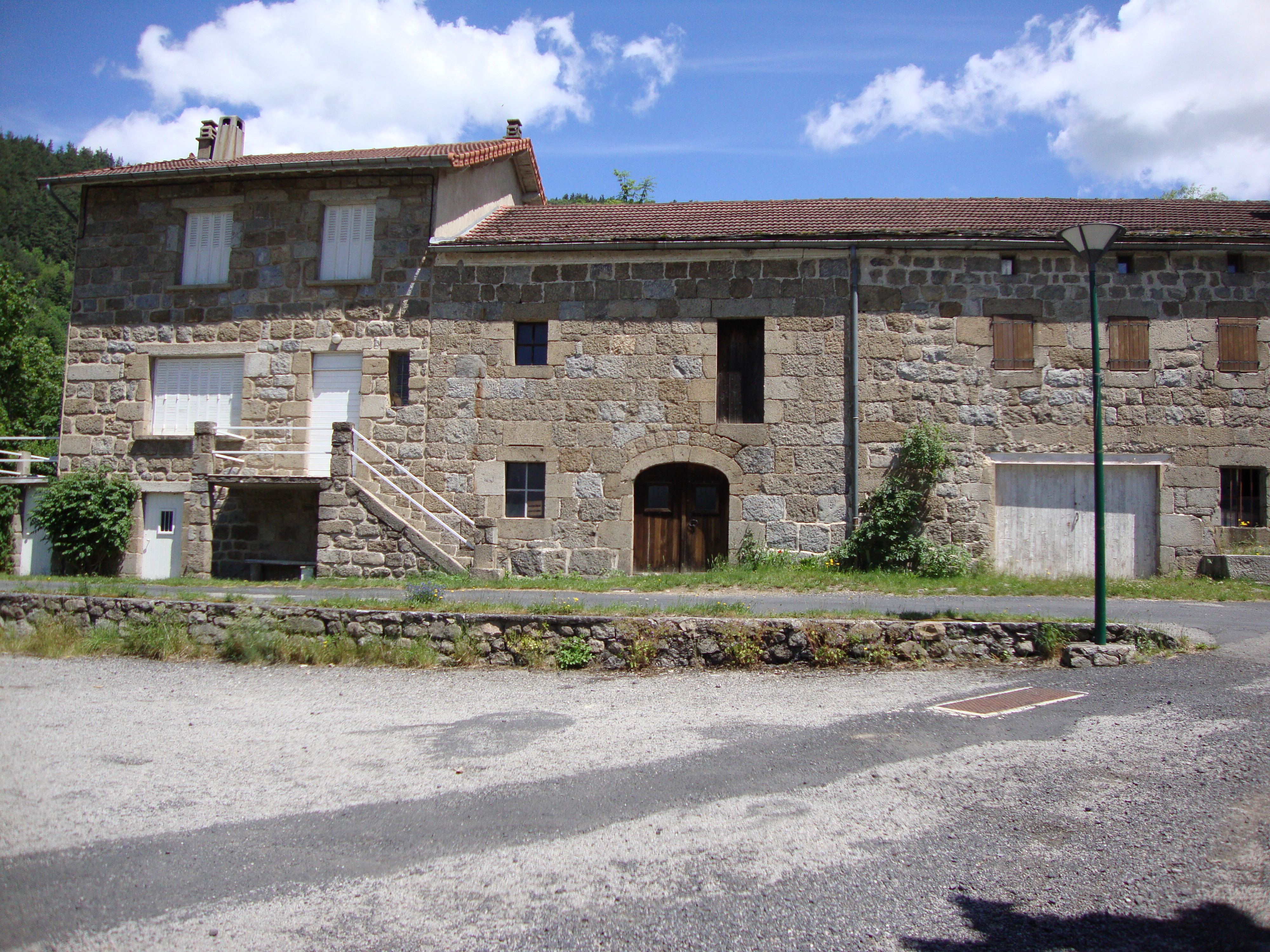 Intres (Ardêche, Fr) the house intended (June 2010) to become the town hall